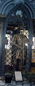 Sculpture: Hobart Brown (deceased); Image: Ellin Beltz